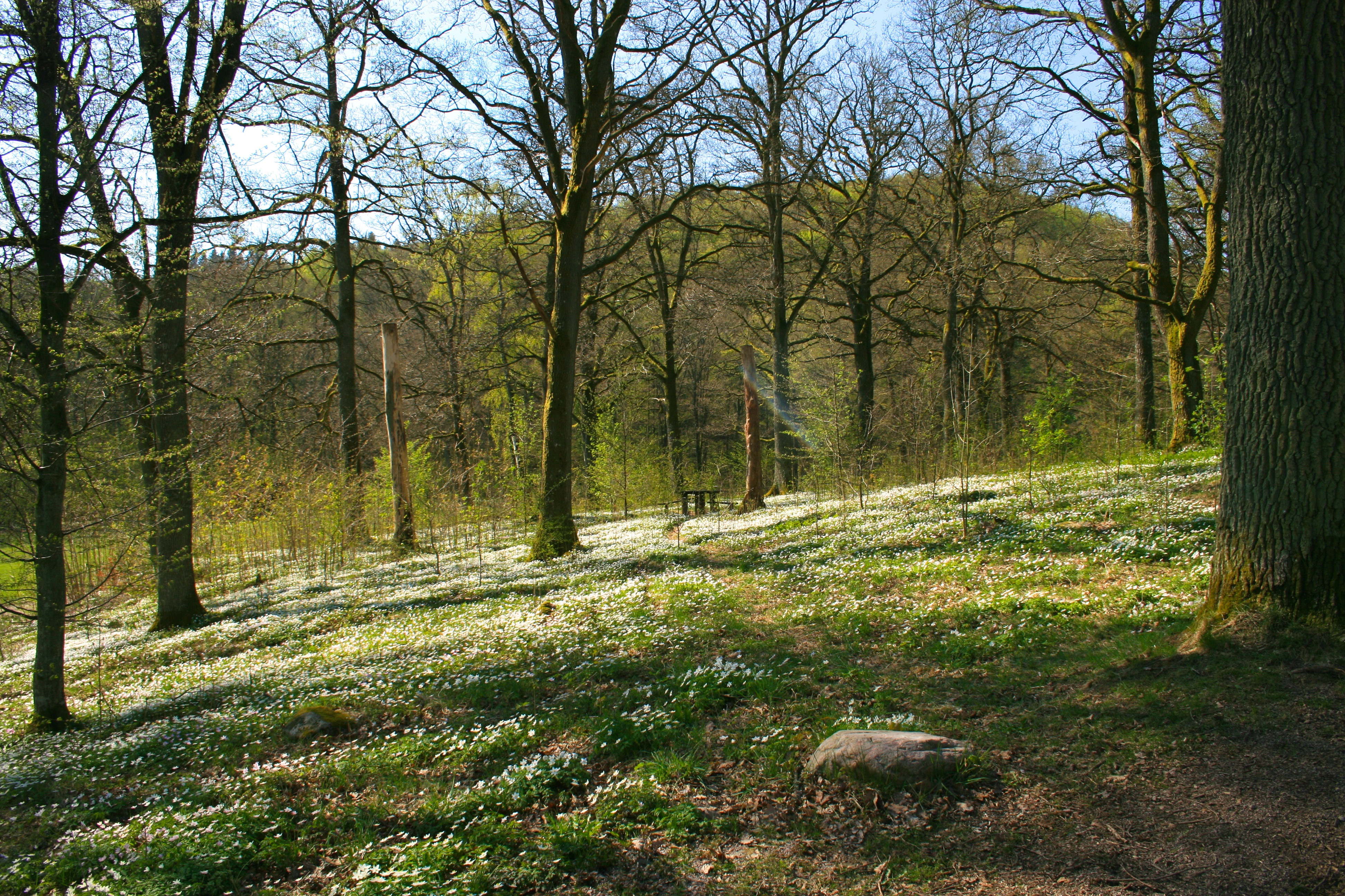 Spring flowers in Söderåsen national park